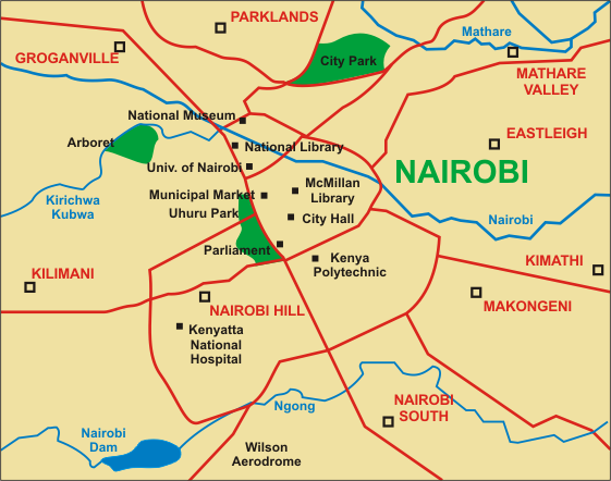 map of Nairobi with quarters and some important places